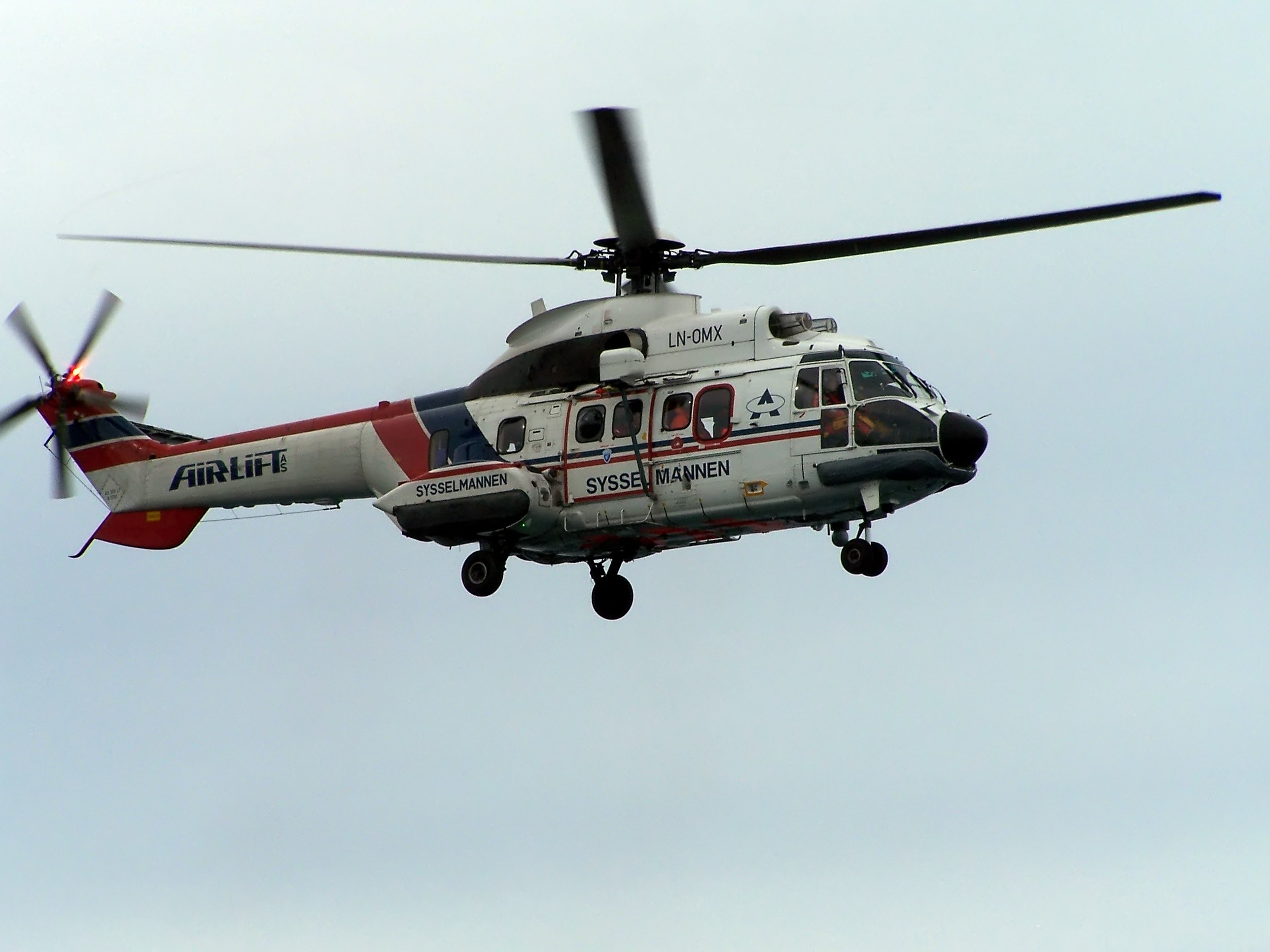 An AS 332 Super Puma on Svalbard